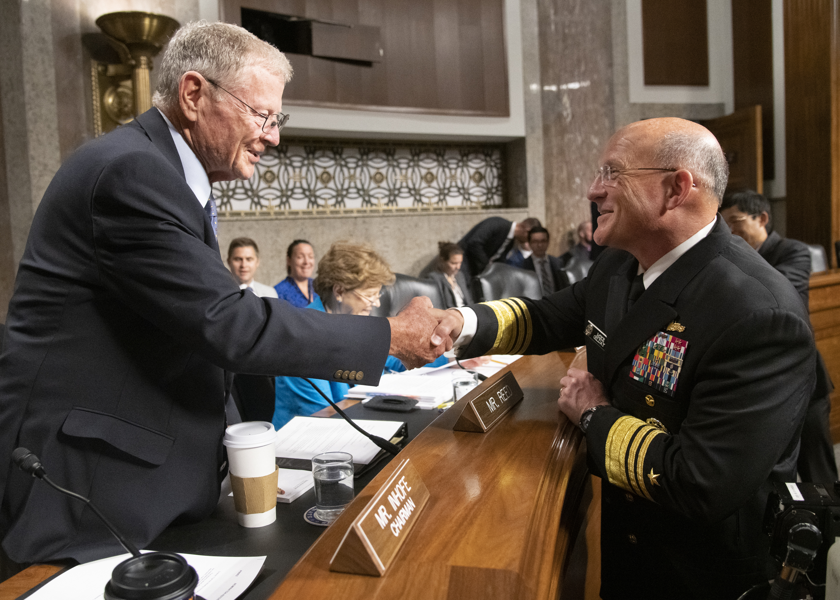 Chairman of the Senate Armed Services Committee Sen. James Inhore speaks to Navy Vice Adm. Michael M. Gilday, director of the Joint Staff, before his confirmation hearing for the position of Chief Naval Operations at the U.S. Senate Dirksen Building in Washington, D.C., July 31, 2019. (DOD photo by U.S. Navy Petty Officer 1st Class Dominique A. Pineiro)